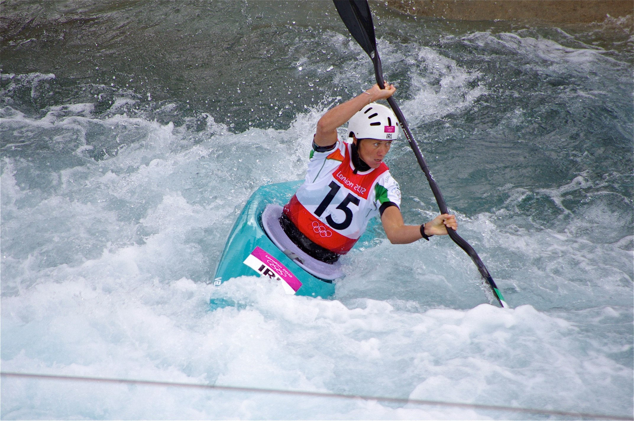 Canoeing at the 2012 Summer Olympics – Women's slalom K-1 Hannah Craig (IRL)